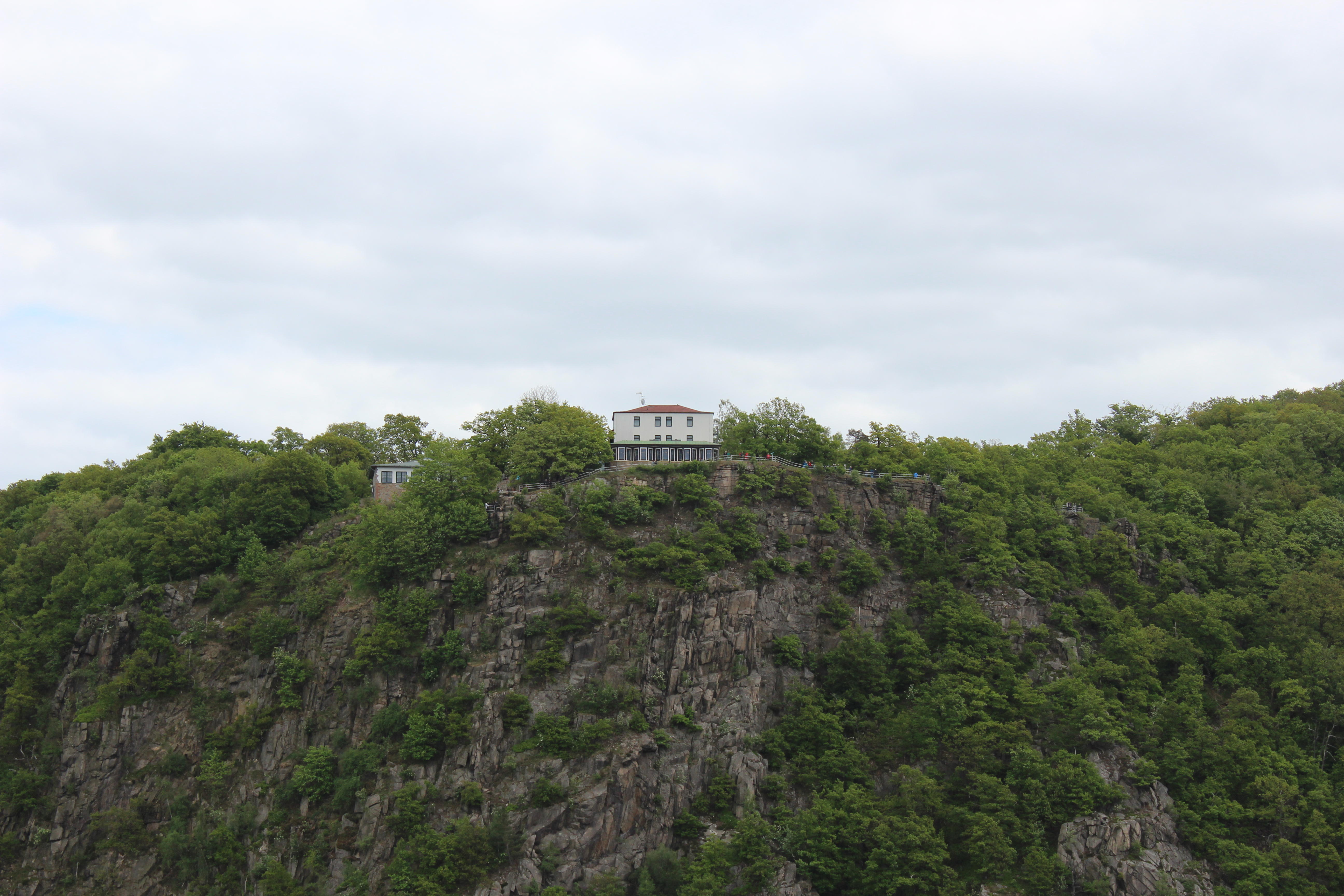 The Hexentanzplatz in the Harz mountain viewed from the Roßtrappe